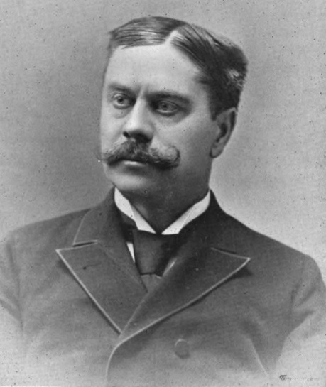 Levi Thomas griffin (1837-1906), Union Army officer and Congressman from Michigan